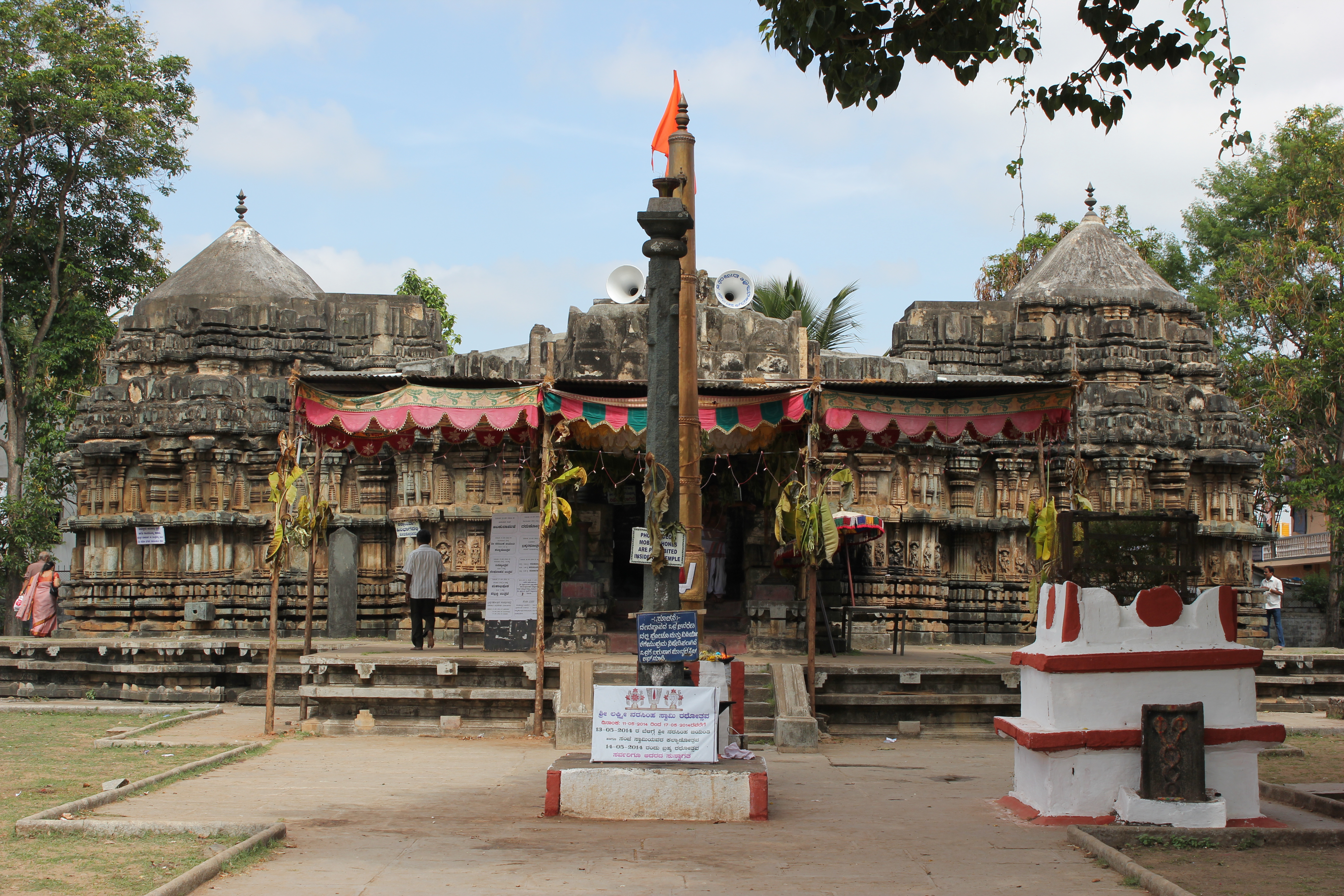 This photograph was taken by self (Dinesh Kannambadi) at the Lakshmi Narasimha temple in Bhadravati, Shimoga district, Karnataka state, India. The temple was built in early 12th century during the rule of the Hoysala Empire King Vishnuvardhana